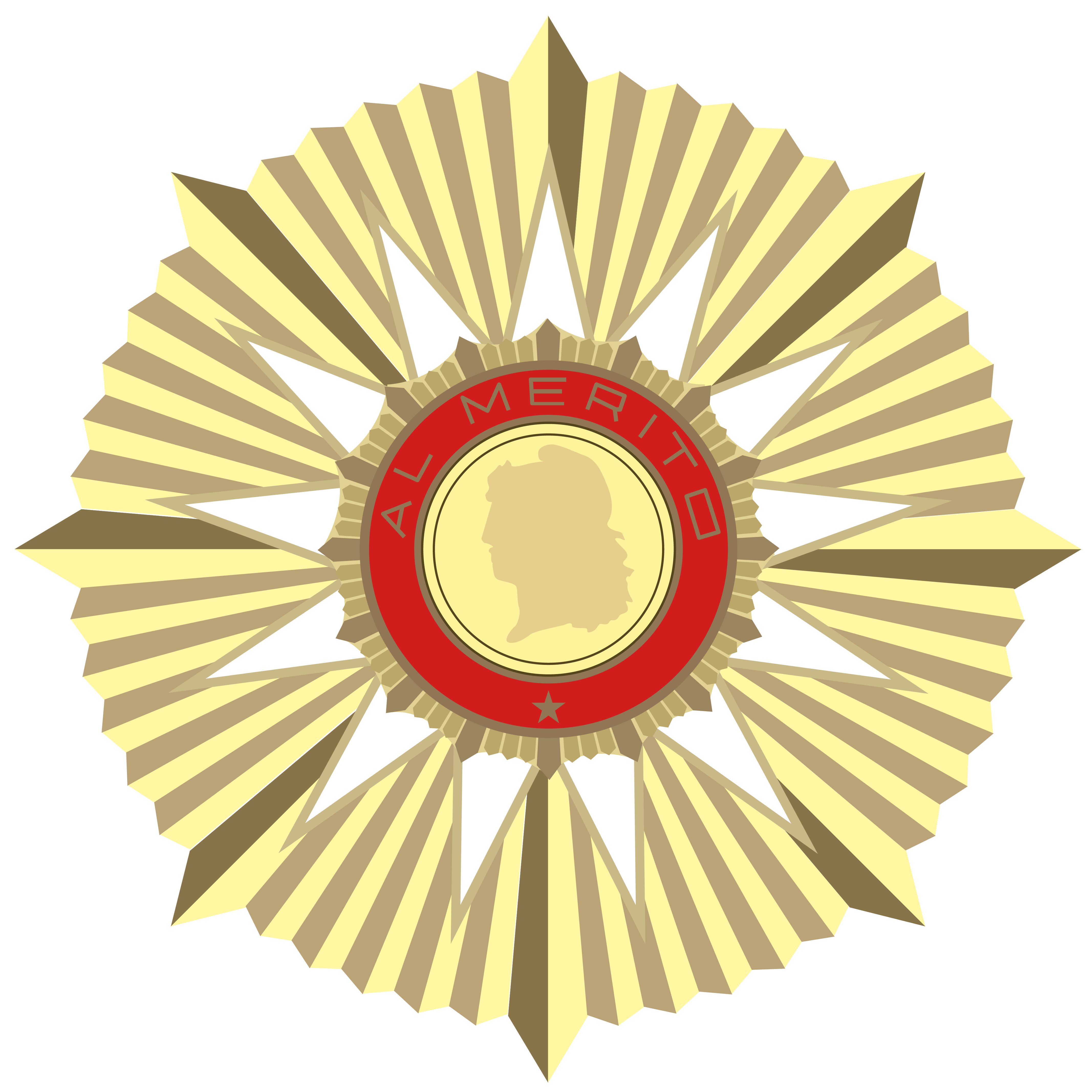 Order of May.